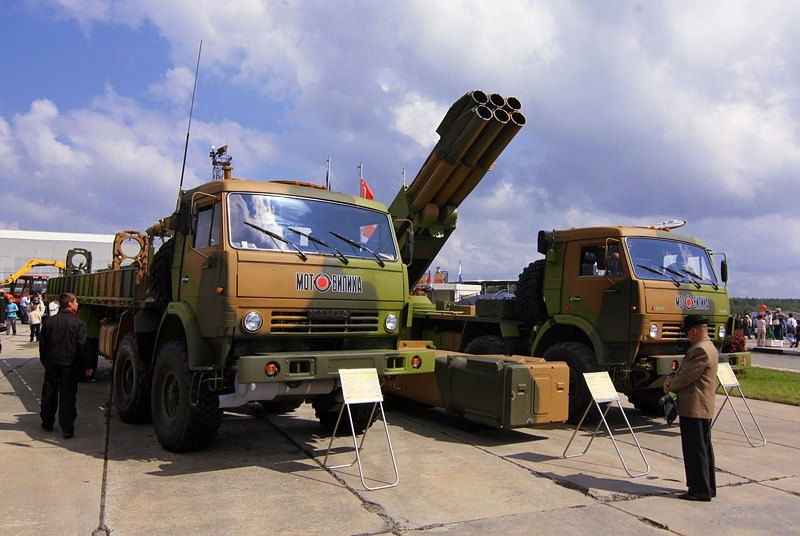 9A52-4 Tornado MLR on Russian Expo Arms 2009 in Nizhny Tagil